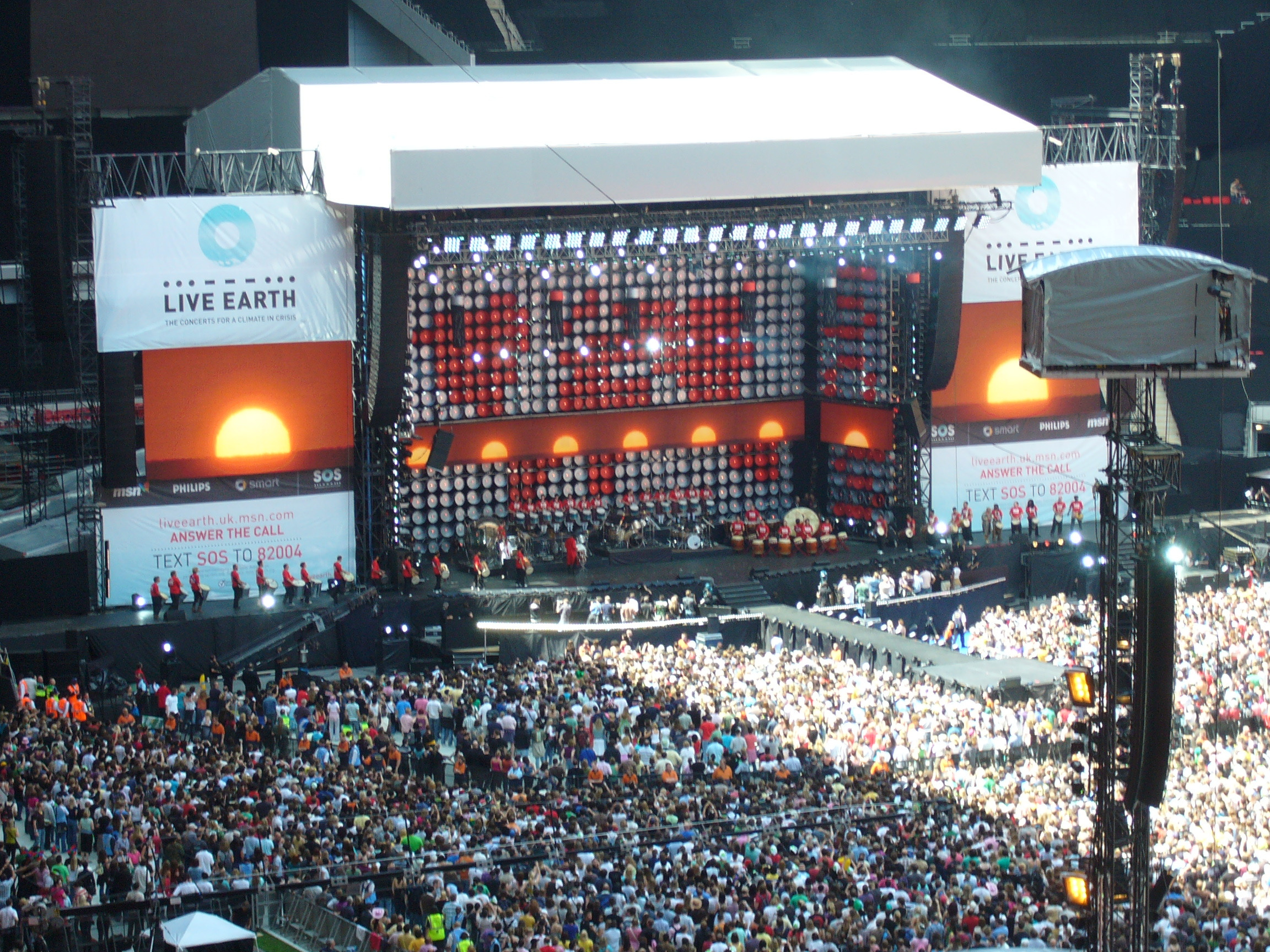 Photo of Wembley Stadium, London during the Live Earth Concert on 7th July 2007. The Photo was taken by me.